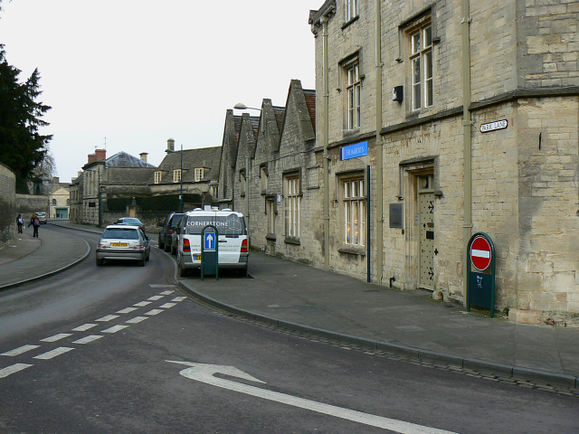 This image was taken from the Geograph project collection. See this photograph's page on the Geograph website for the photographer's contact details. The copyright on this image is owned by Brian Robert Marshall and is licensed for reuse under the Creative Commons Attribution-ShareAlike 2.0 license. Attribution: Brian Robert Marshall